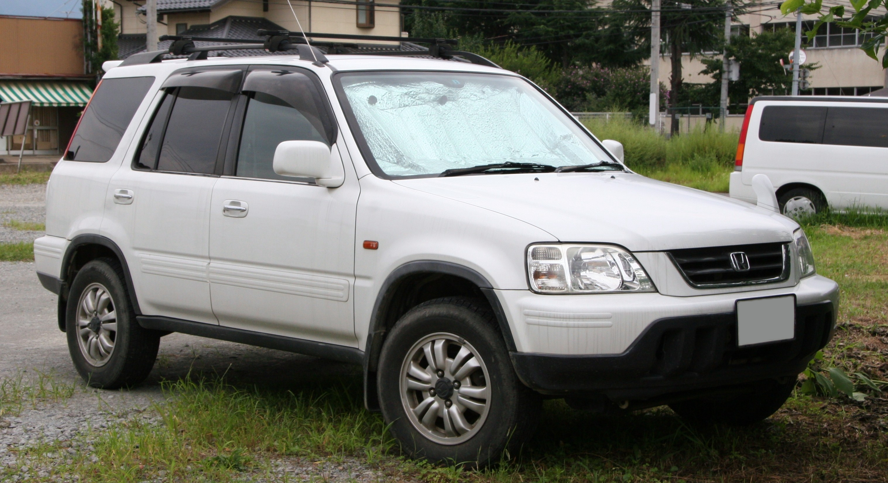 Honda CR-V